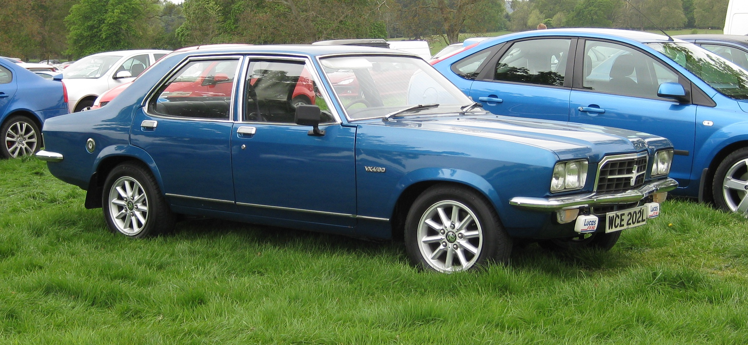 Vauxhall VX4/90 based on the FE Victor.